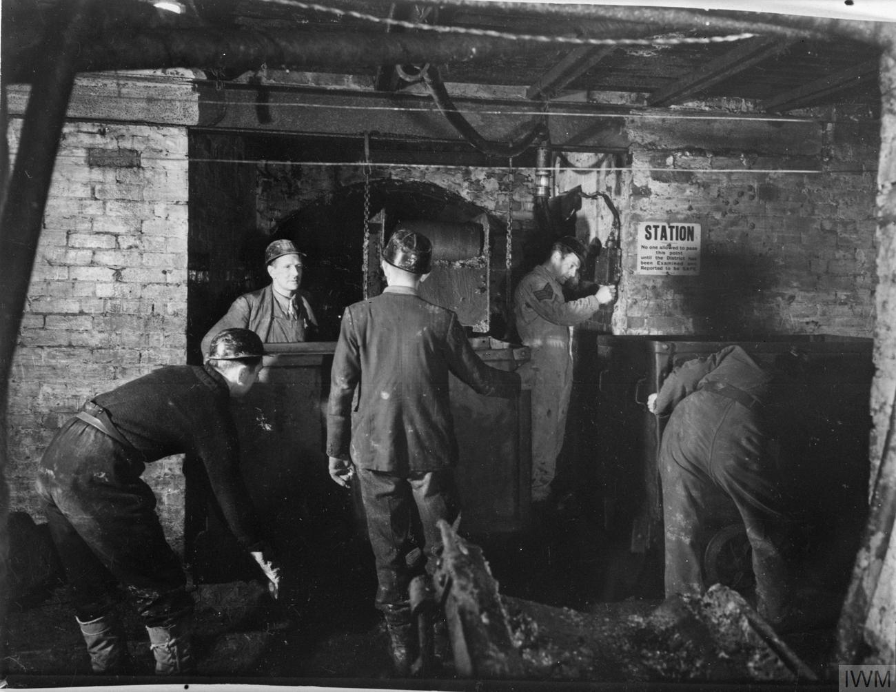 Bevin Boy- Mining Training at Ollerton, Nottinghamshire, February 1945 At the loading station at Ollerton colliery, instructor Tom Barlow (second from left) shows Bevin boys the correct way to handle filling tubs. The tubs are trucks which arrive by conveyor.